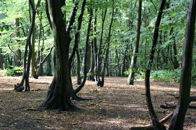 Coldfall Wood Hornbeam Undercanopy.